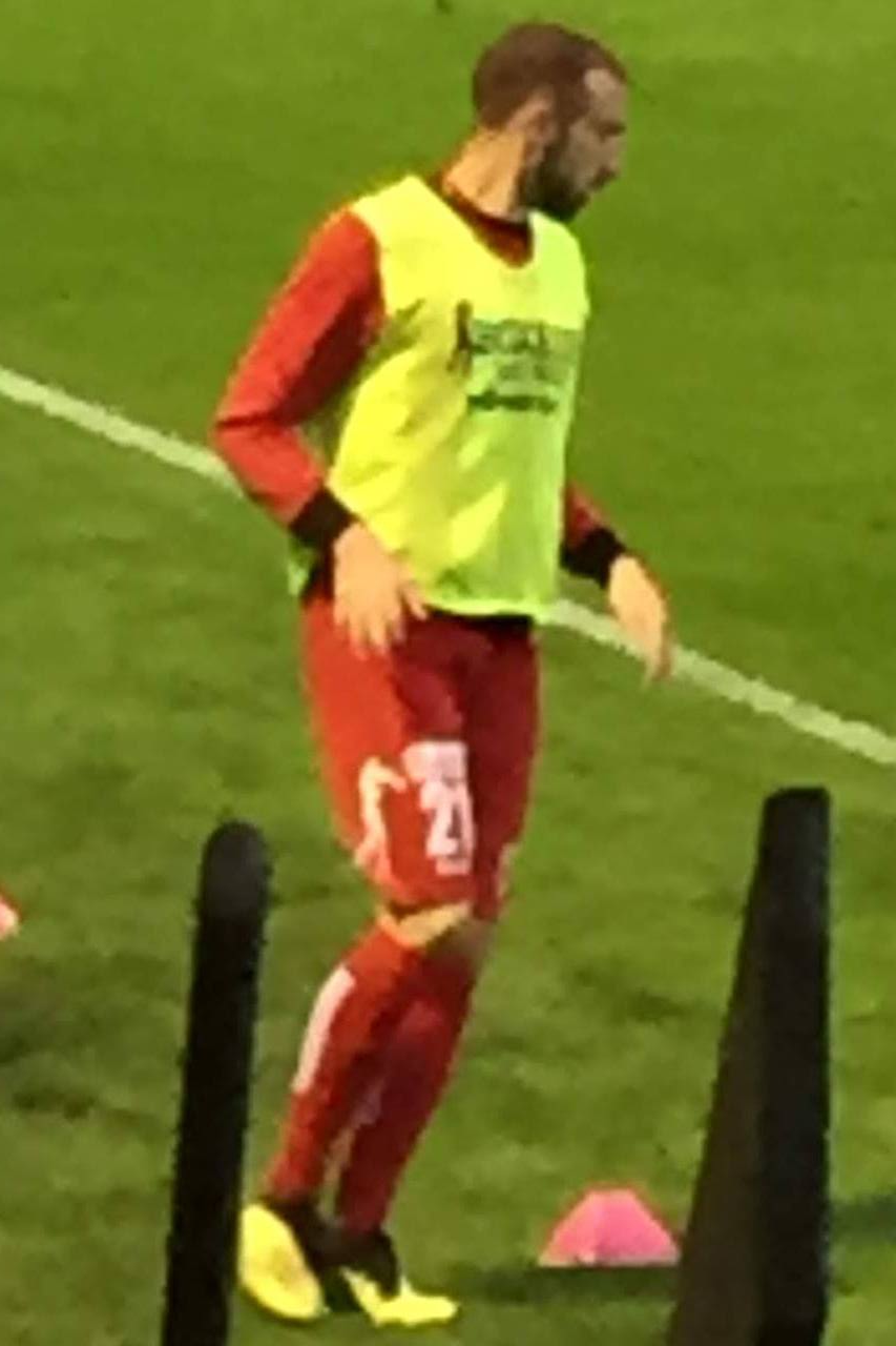 Monza - Viterbese, Coppa Italia Serie C Final 2019